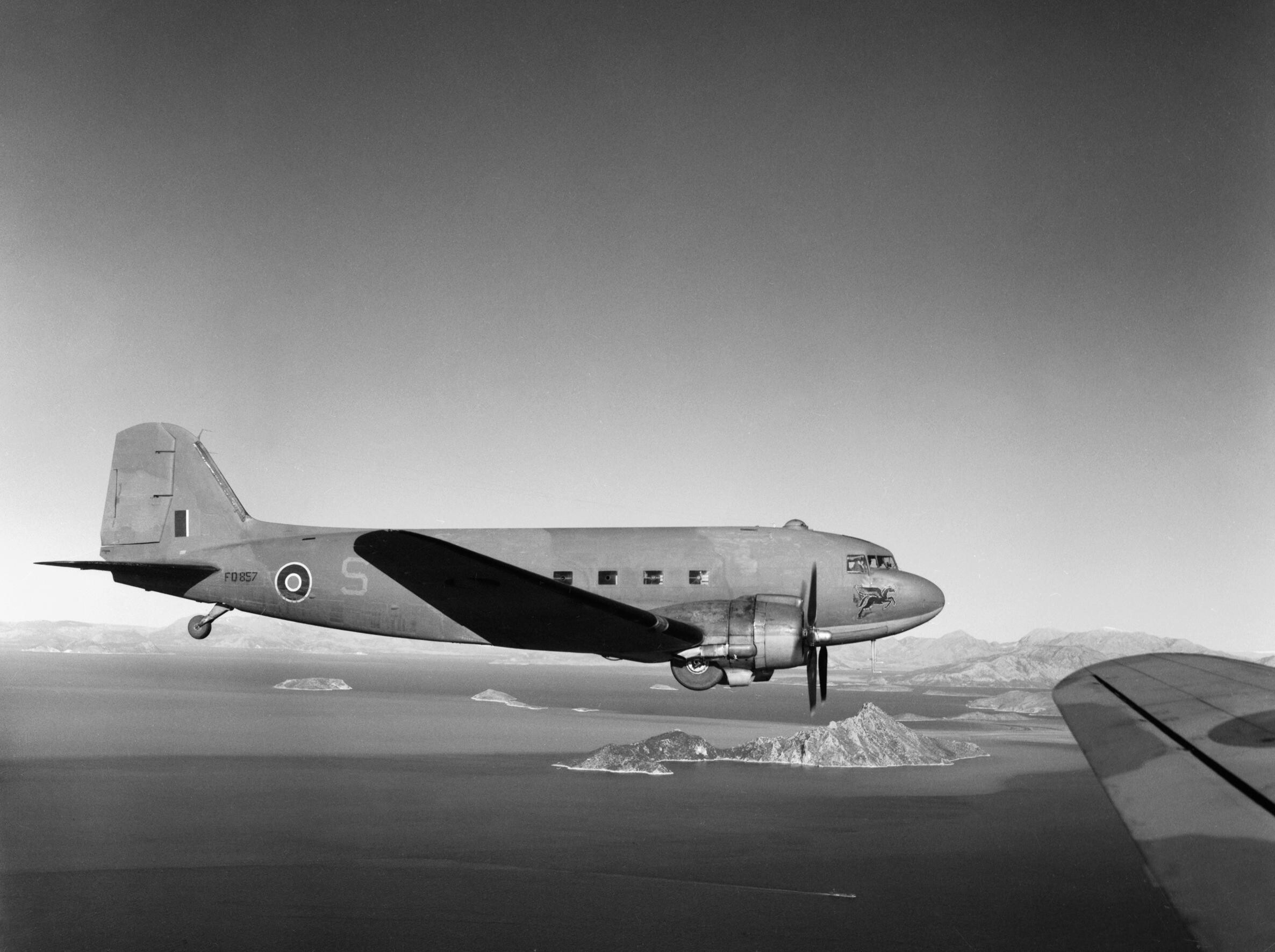 Douglas Dakota Mk III of No. 267 Squadron RAF based at Bari in Italy, 27 December 1944. Dakota Mark III, FD857 ‘S’, of No. 267 Squadron RAF based at Bari, Italy, flying along the Balkan coast line. Note the Squadron's "Pegasus" emblem painted on the nose.